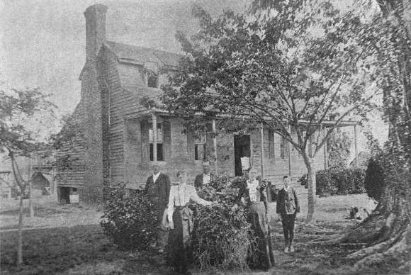 Blount Hall, the home of Jacob Blount (1726–1789), in Pitt County, North Carolina, photographed in the late 19th century. Jacob Blount, the father of Constitutional Convention delegate William Blount, built the house in the 1750s, and it stood until the 1960s, when it burned.